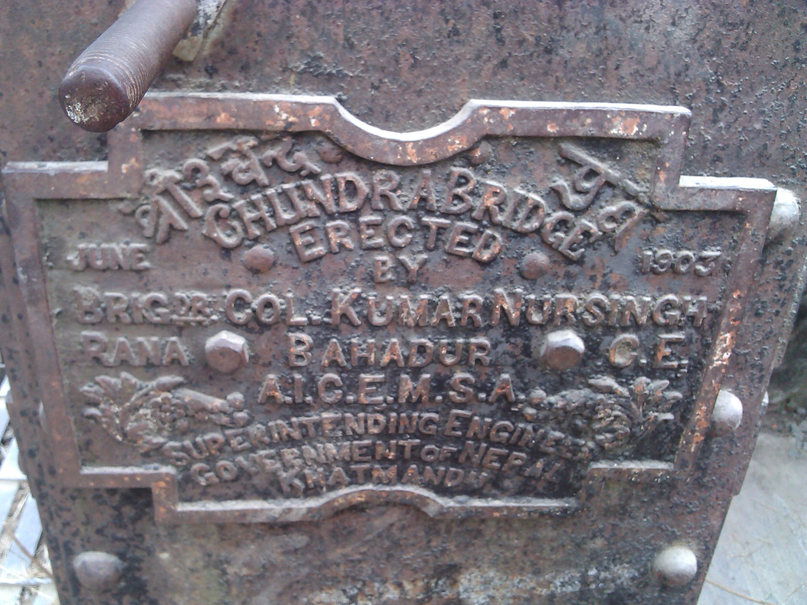 चोभारमा रहेको झोलुंगे पुलमा लेखिएको